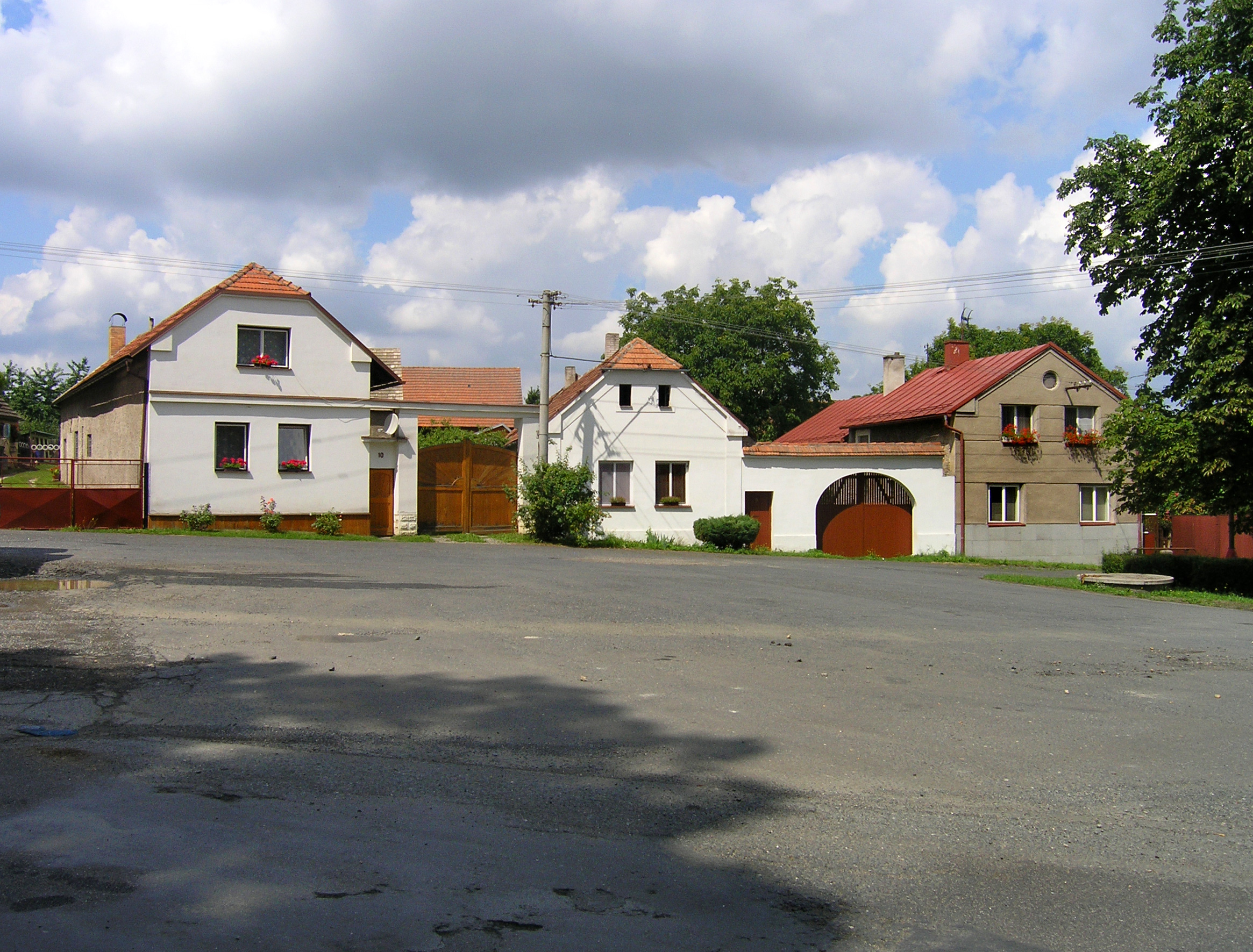 Main square in Červené Janovice, Czech Republic